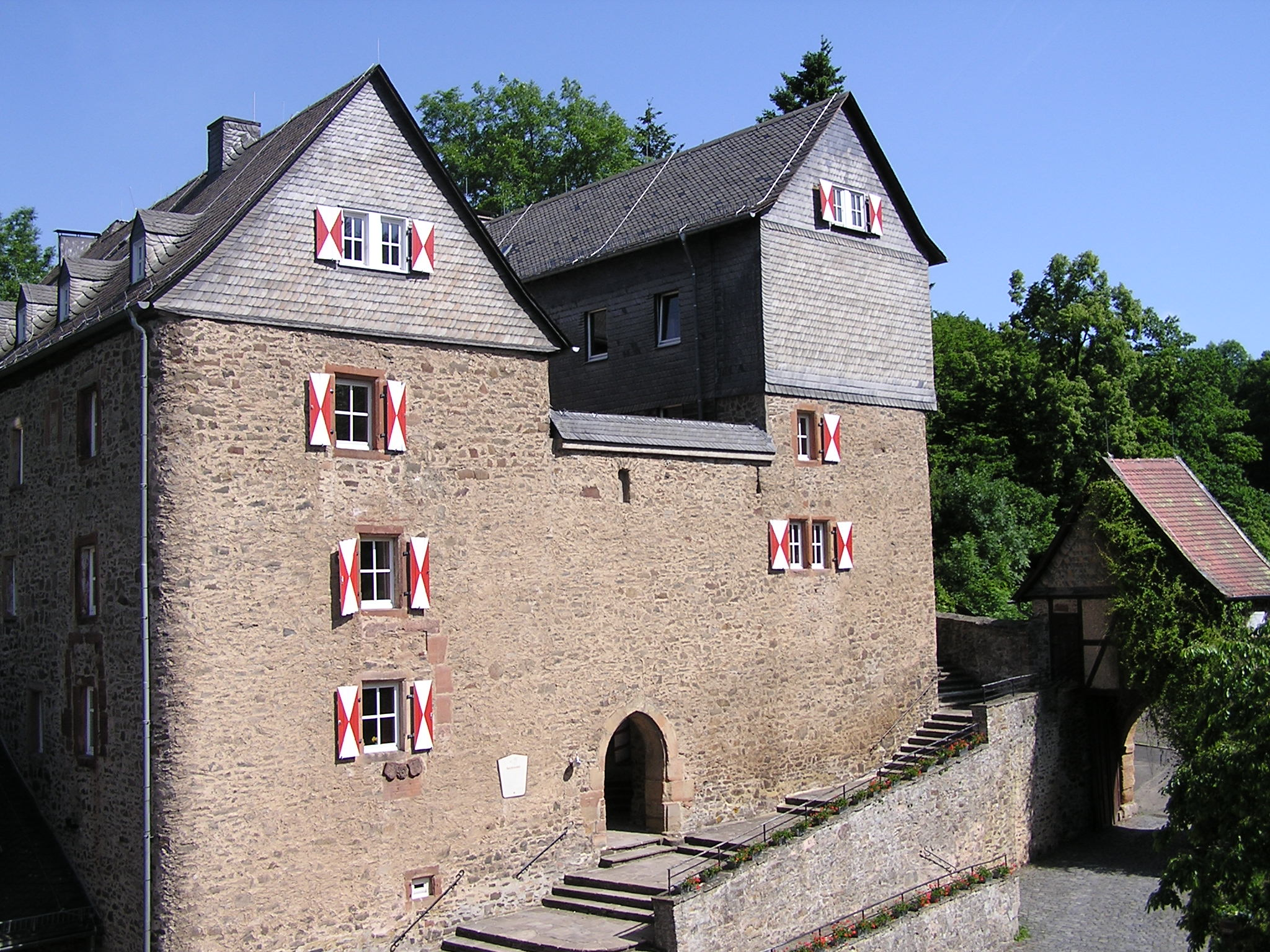 Burg Hessenstein